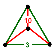 Truncated_120-cell vertex figure